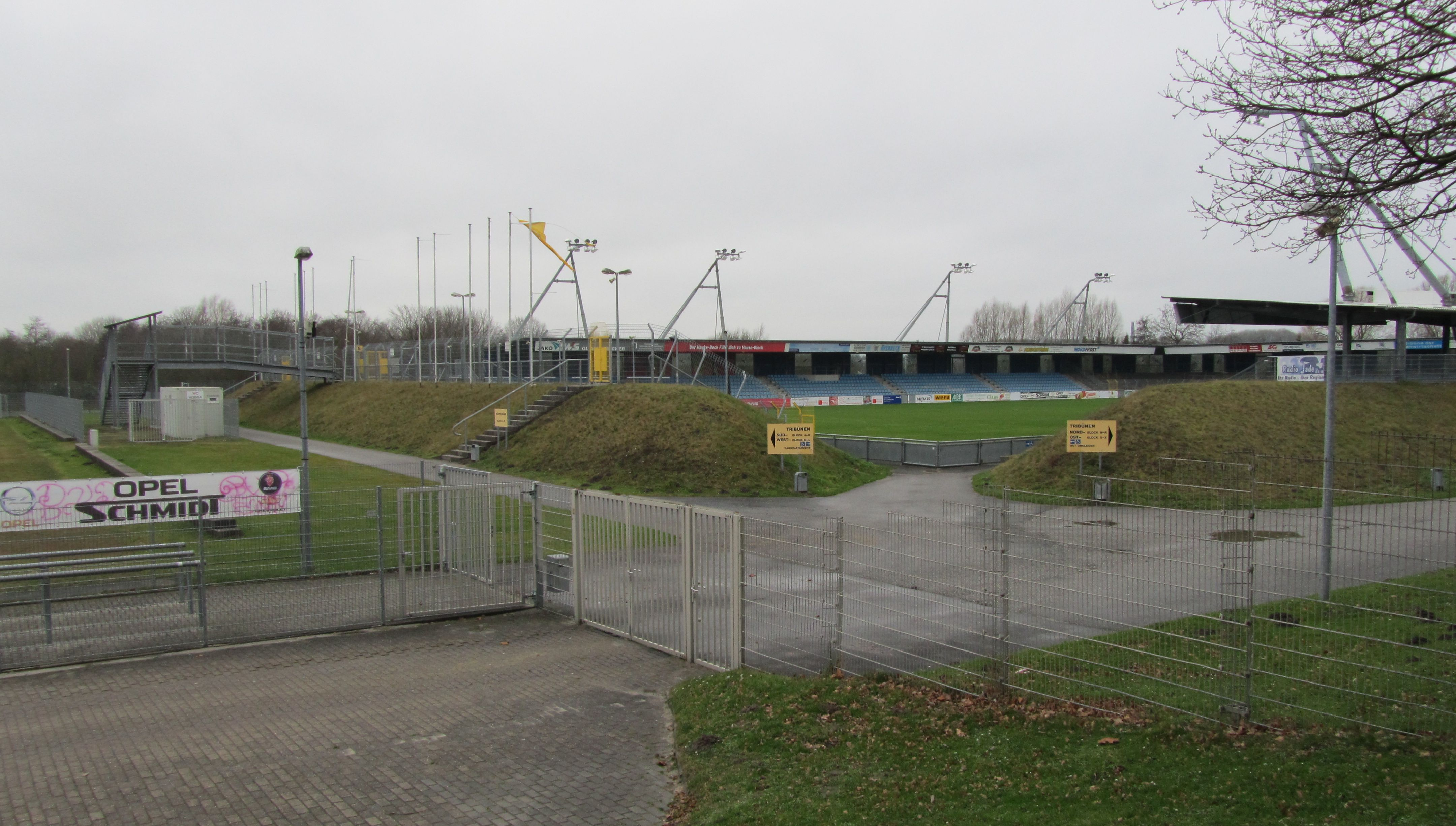 Jade stadium, Wilhelmshaven, Germany.